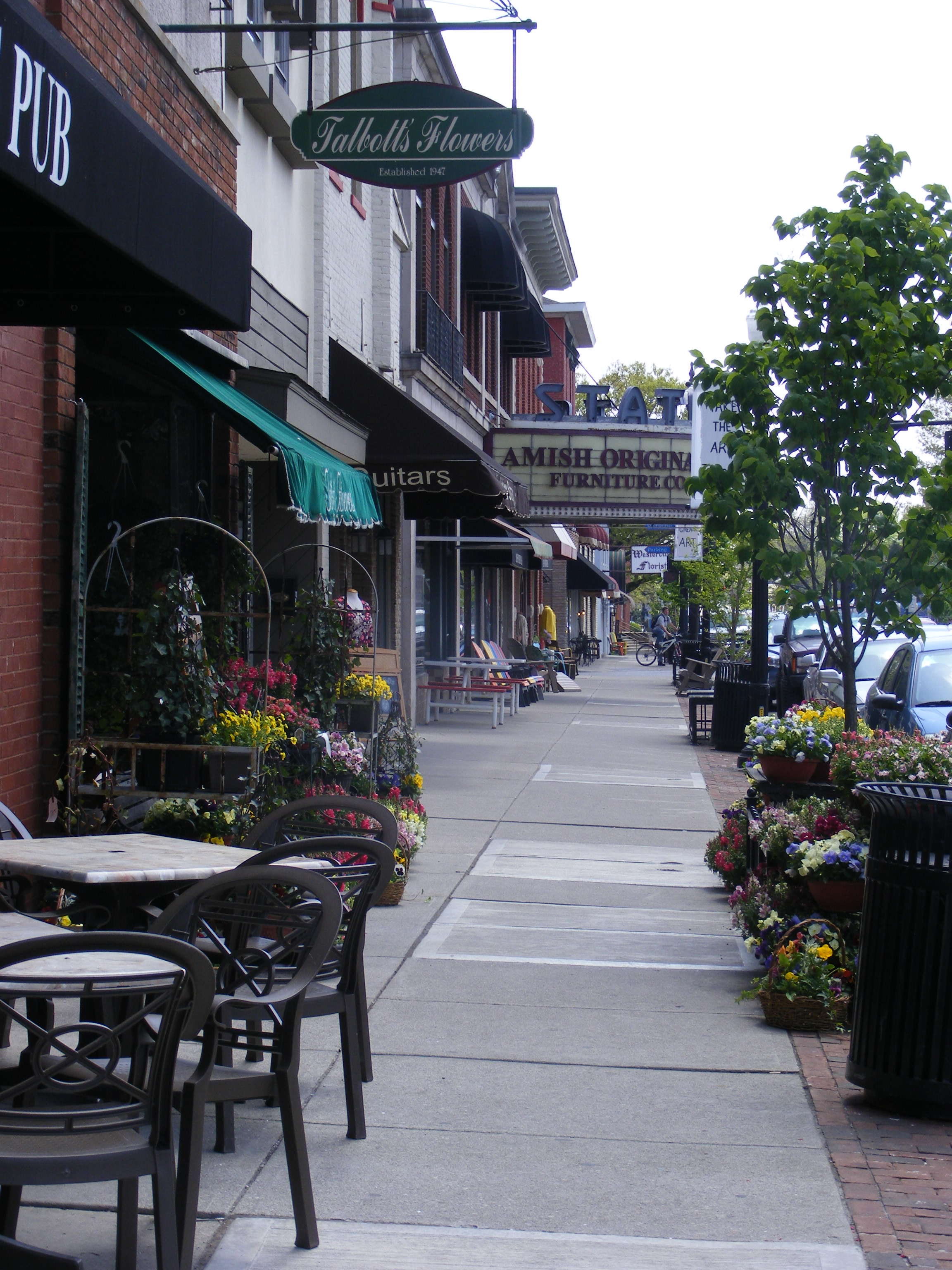 State Street, Westerville